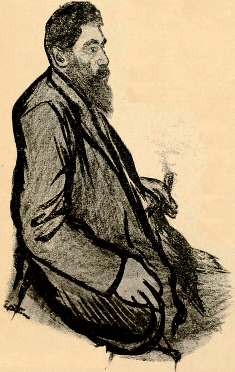 From :The spirit of the Ghetto; studies of the Jewish quarter in New York